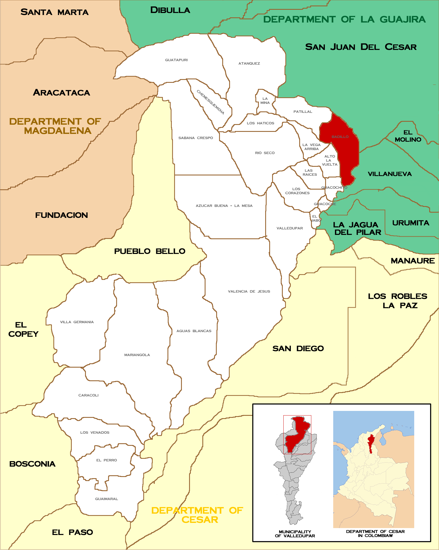 Map of Corregimientos of Valledupar, Badillo